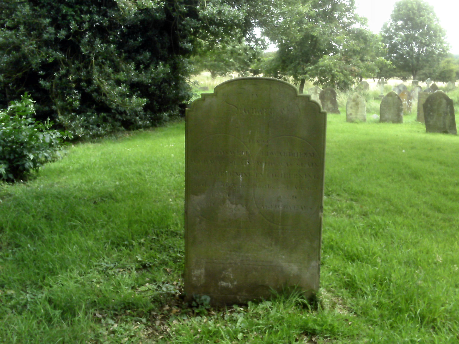 The gravestone of Tyso Boswell and Edward Hearin (or Heron), two gypsies killed by lightning at Tetford, Lincolnshire.